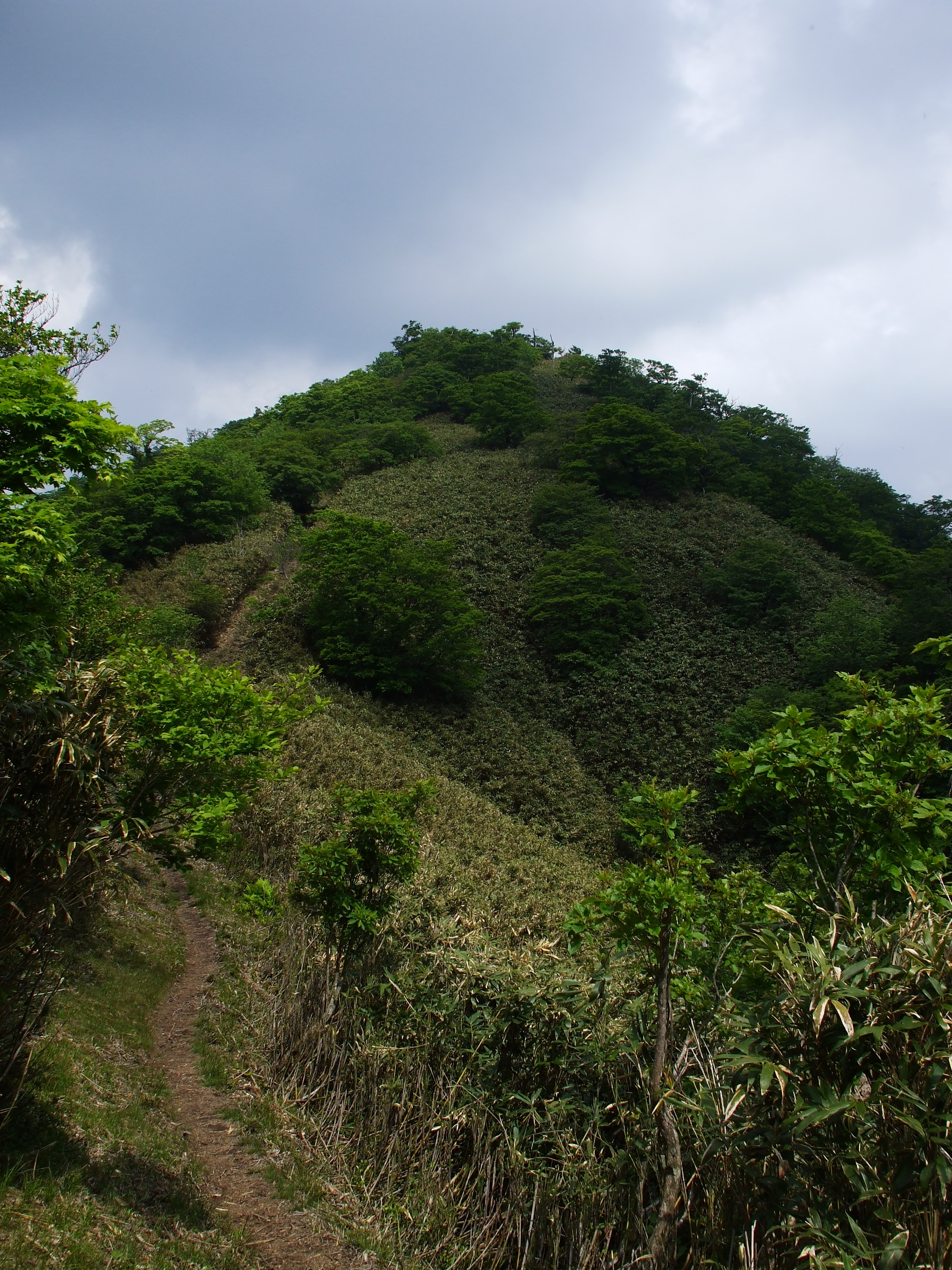 Mount Ushiro from west. Aka. Mount Itabami.